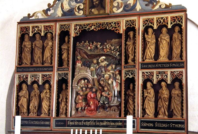 Bellinge Kirke